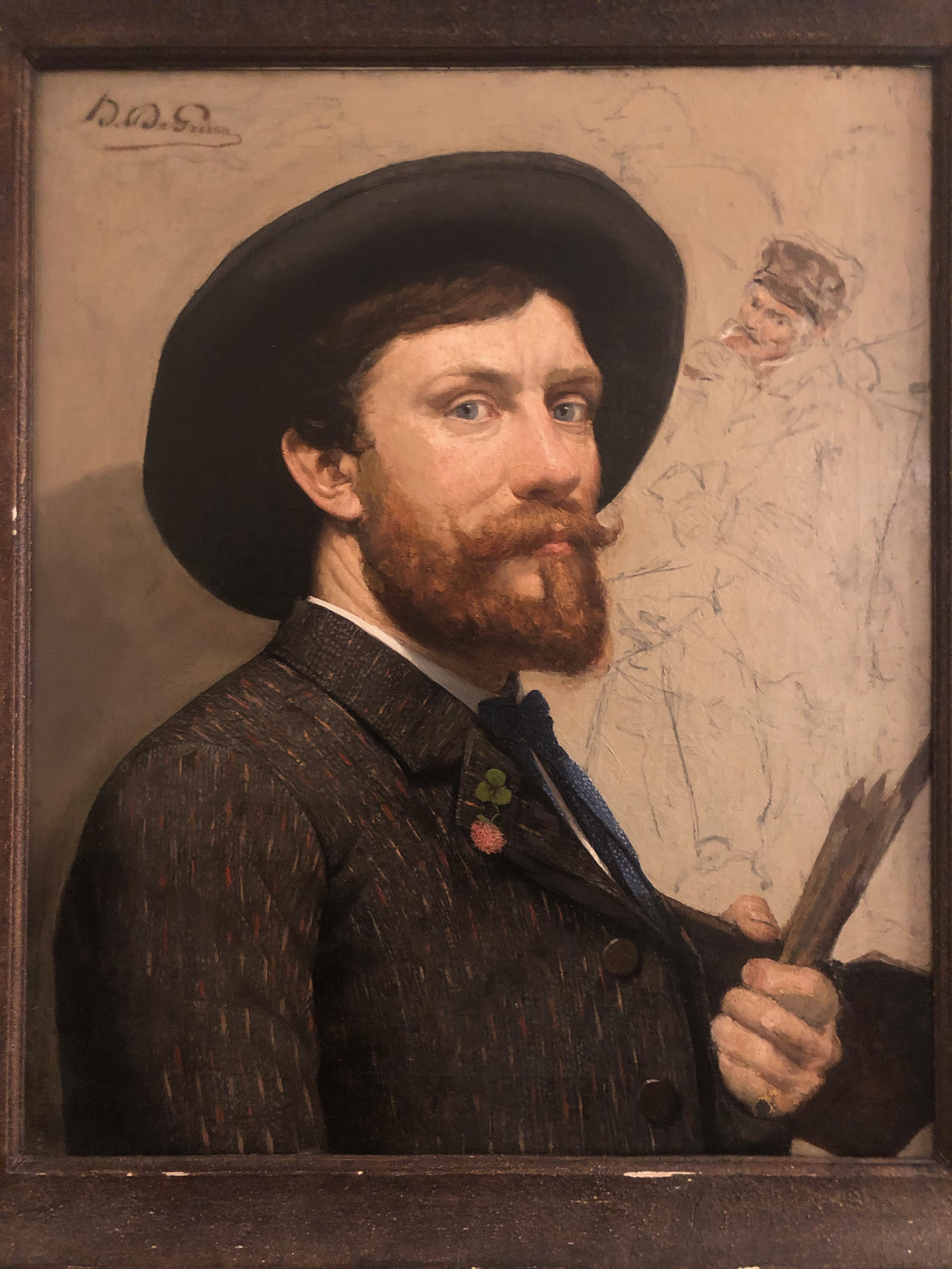 Autoportrait Henri De Graer